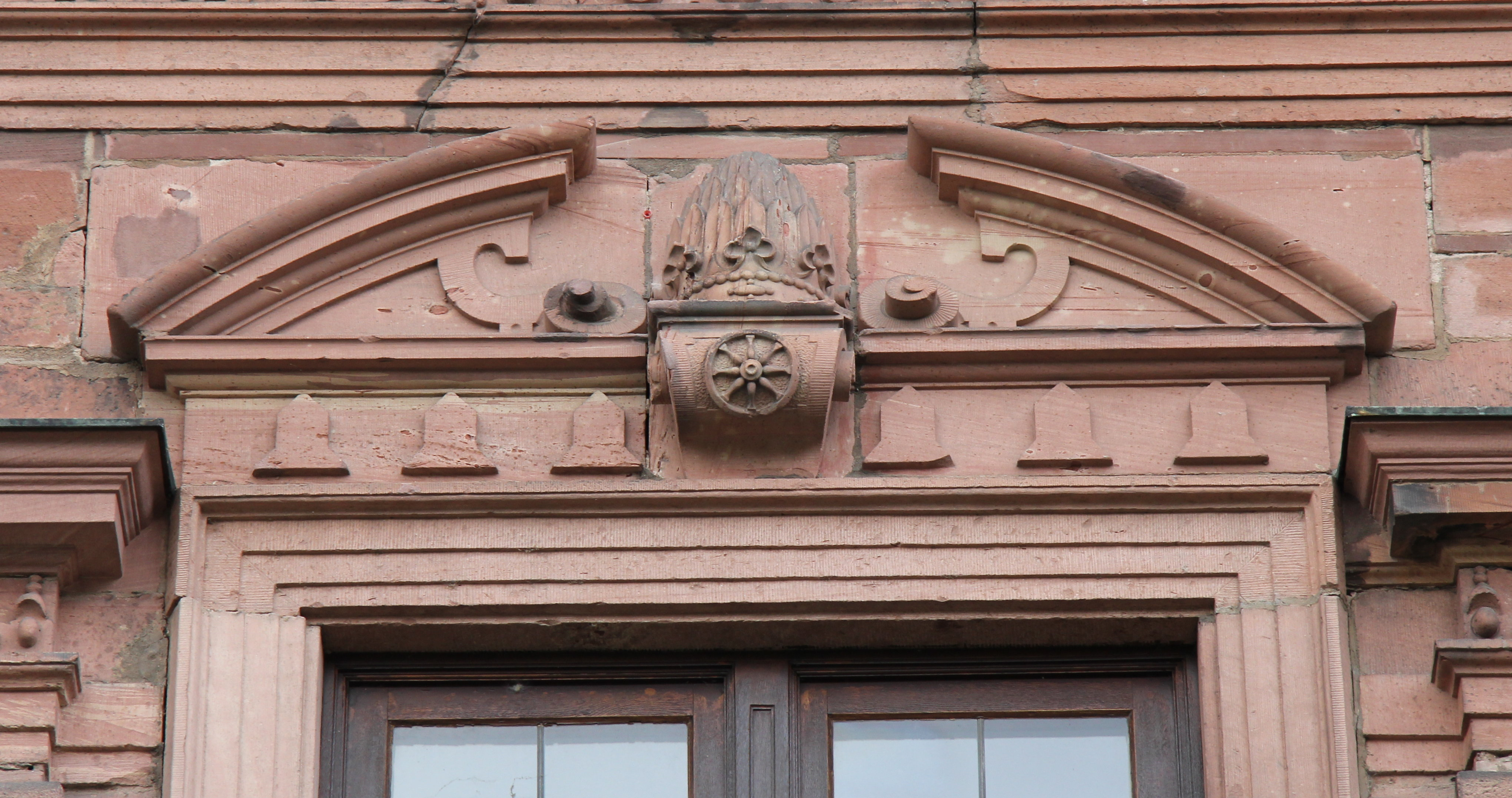 Window detail of Johannisburg Castle in Aschaffenburg, Bavaria, Germany